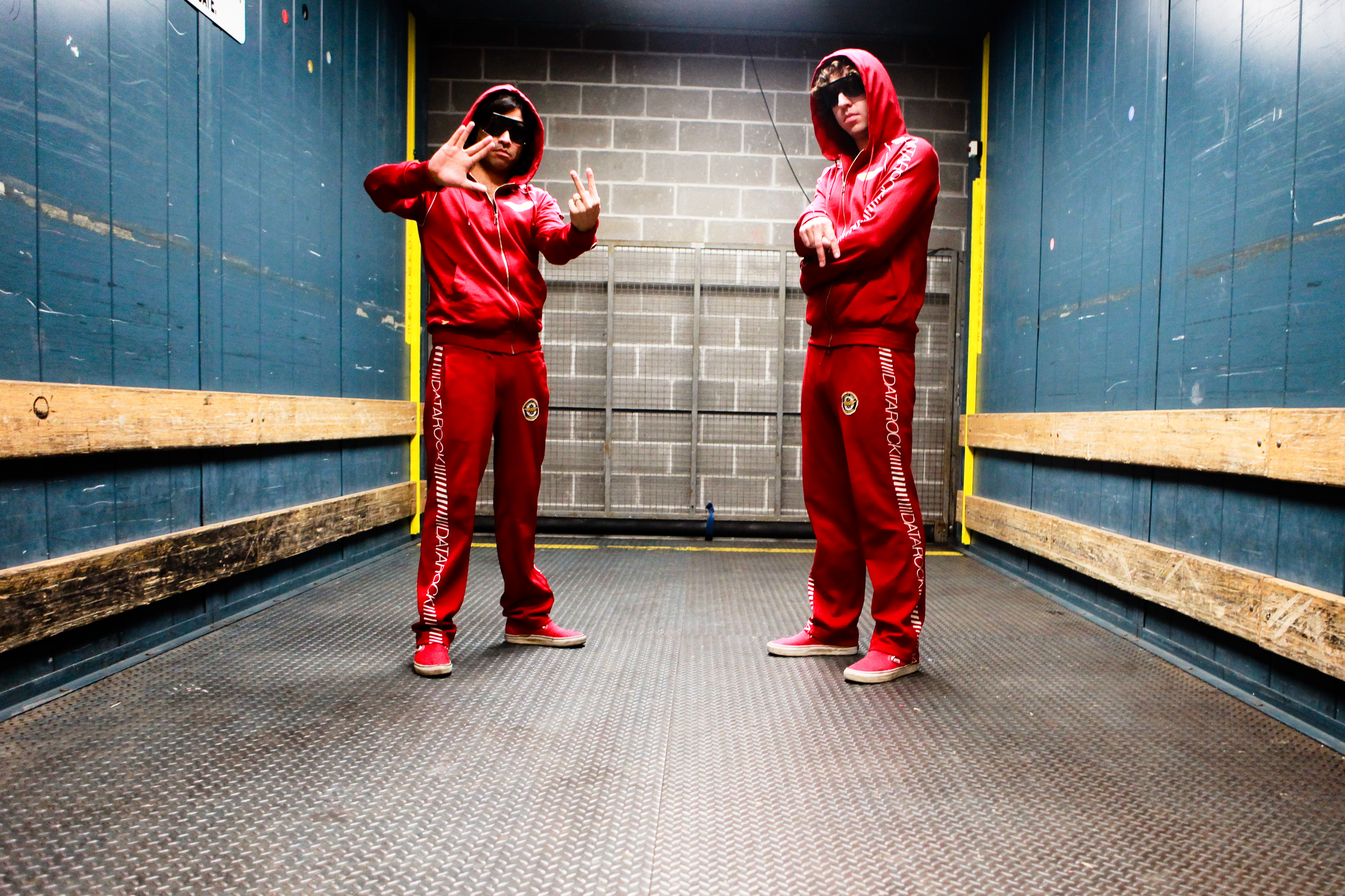 Datarock at South by South West 2009 shot by Kris Krug (